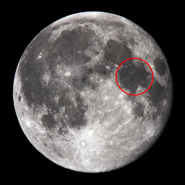 The Location of Mare Tranquillitatis, One of the Lunar Geographical Features.